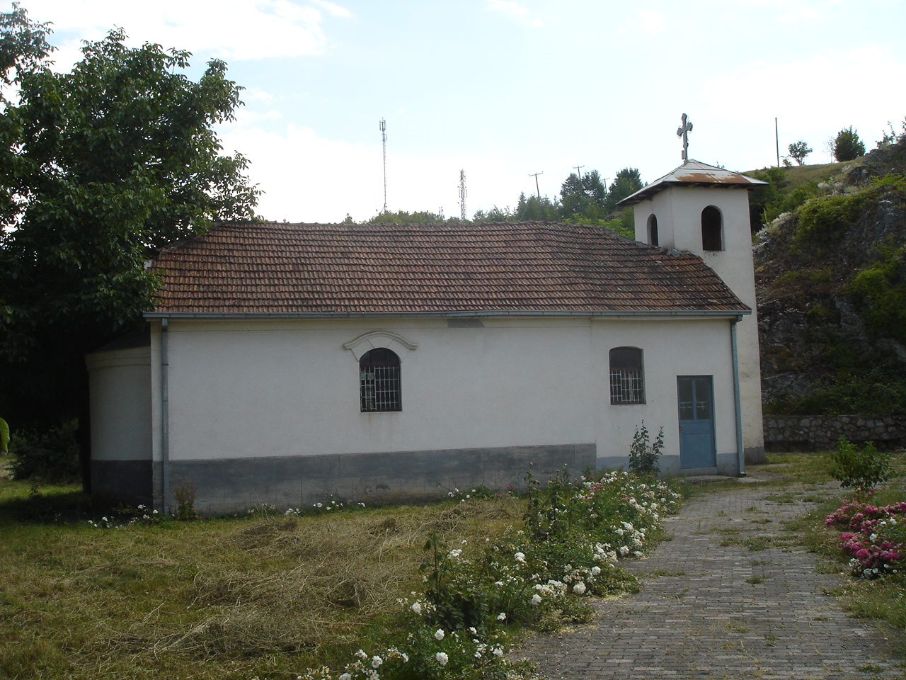 The church in the village of Kalishta, near Struga, Macedonia